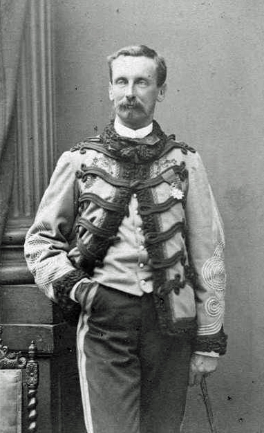 Robert d’Orléans, Duke of Chartres